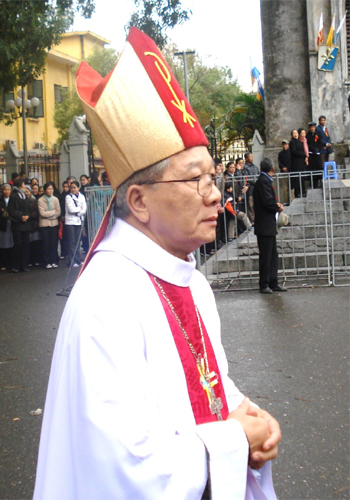 Bishop Vũ Huy Chương